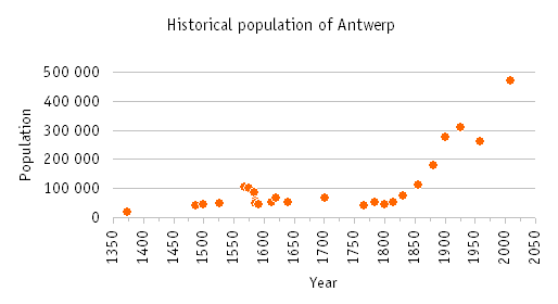 Population time-line for the city of Antwerp, Belgium.